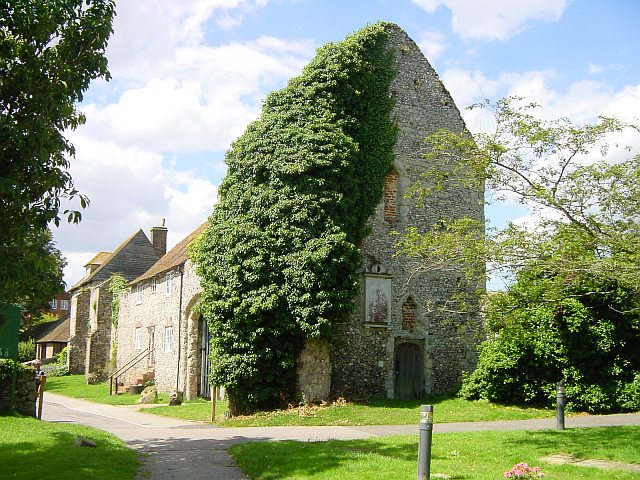 Remaining buildings of one of the Archbishop of Canterbury's three (Secondary) Palaces, that of Charing, Kent near Maidstone